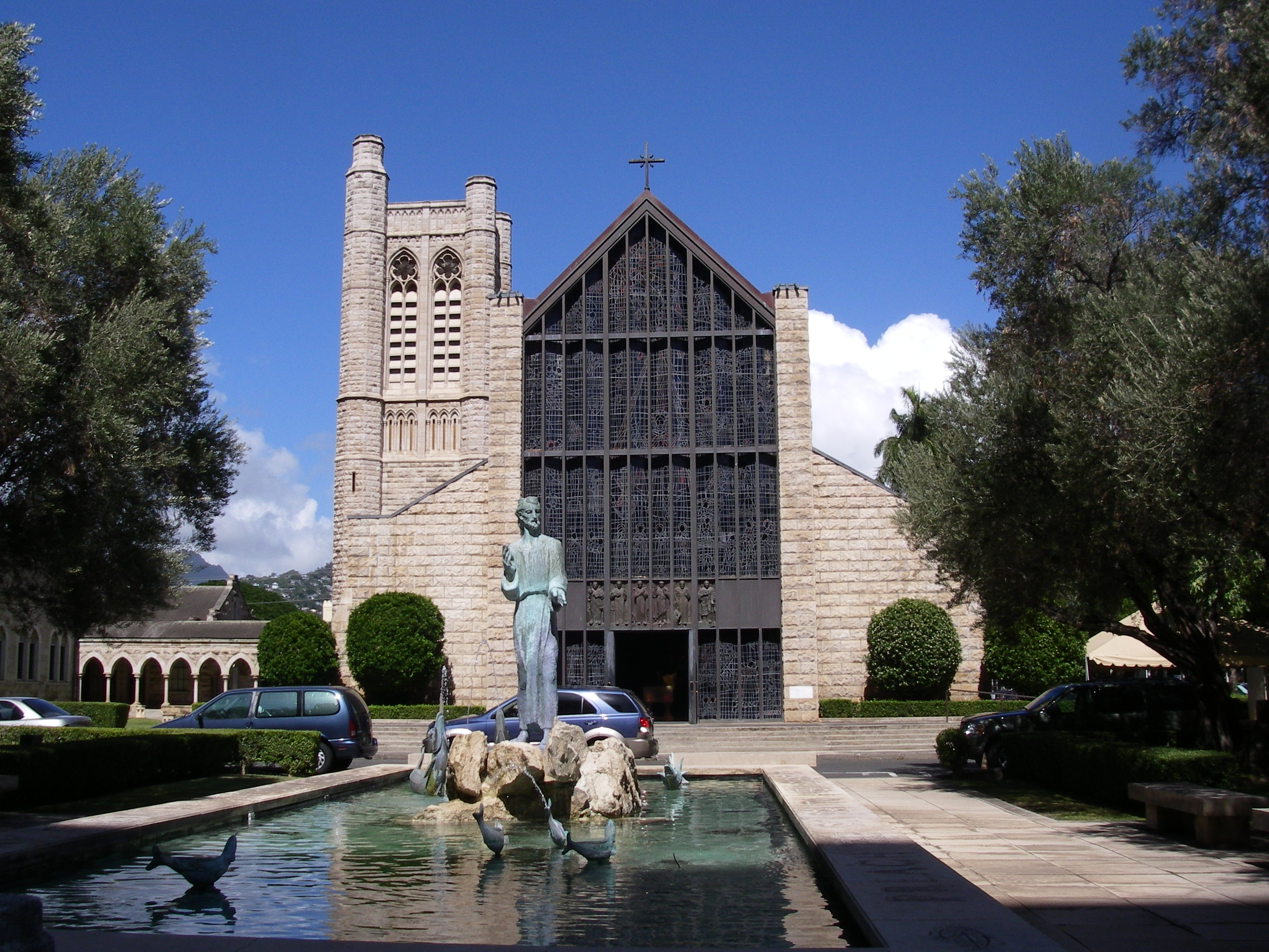 This is an image of the front of the main building of St. Andrew's cathedral in Honolulu, Hawaii, USA. The picture was taken from Beretania Street